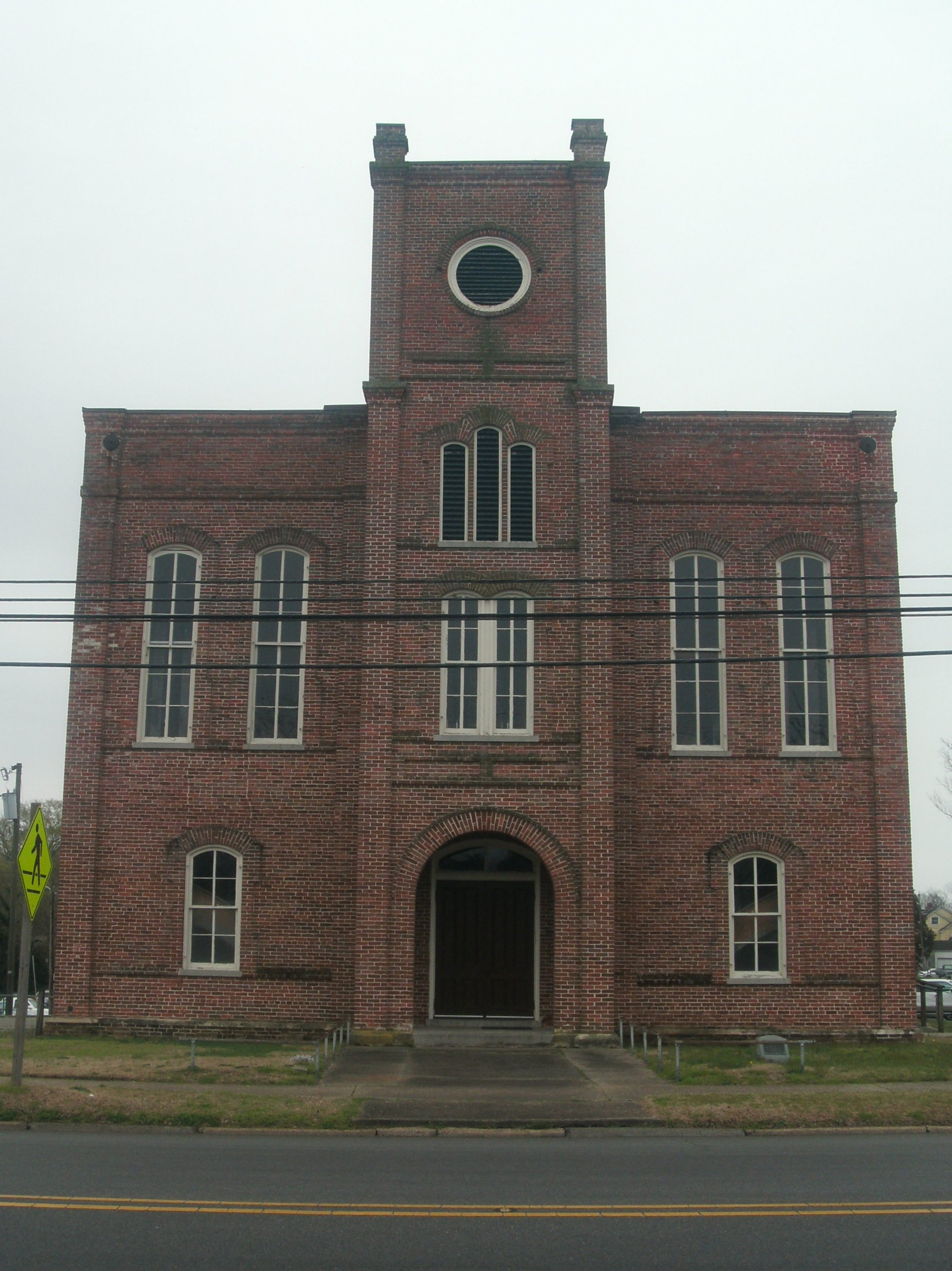 Williamston, North Carolina, March, 2015 GEDSC DIGITAL CAMERA